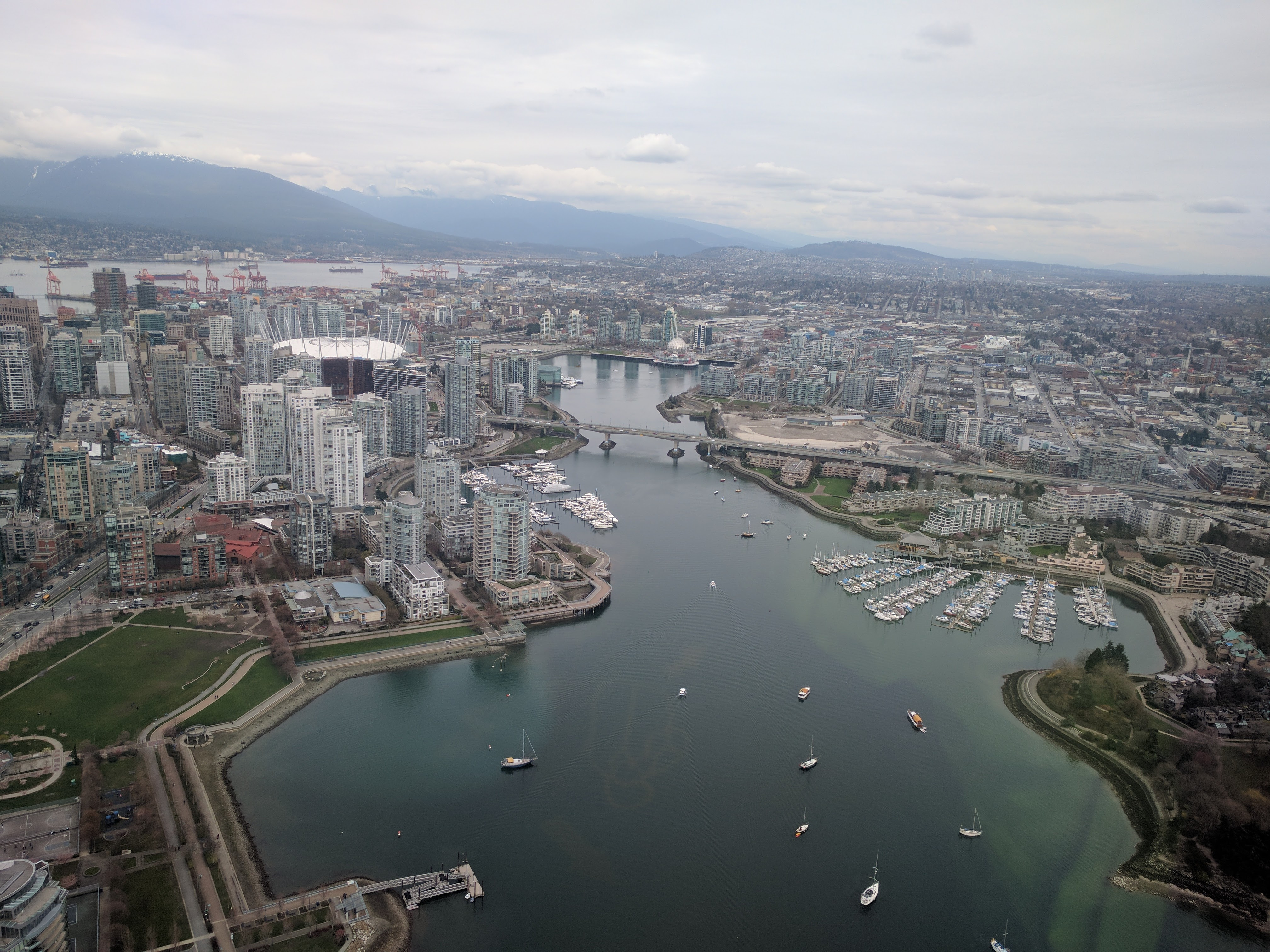 False Creek Vancouver